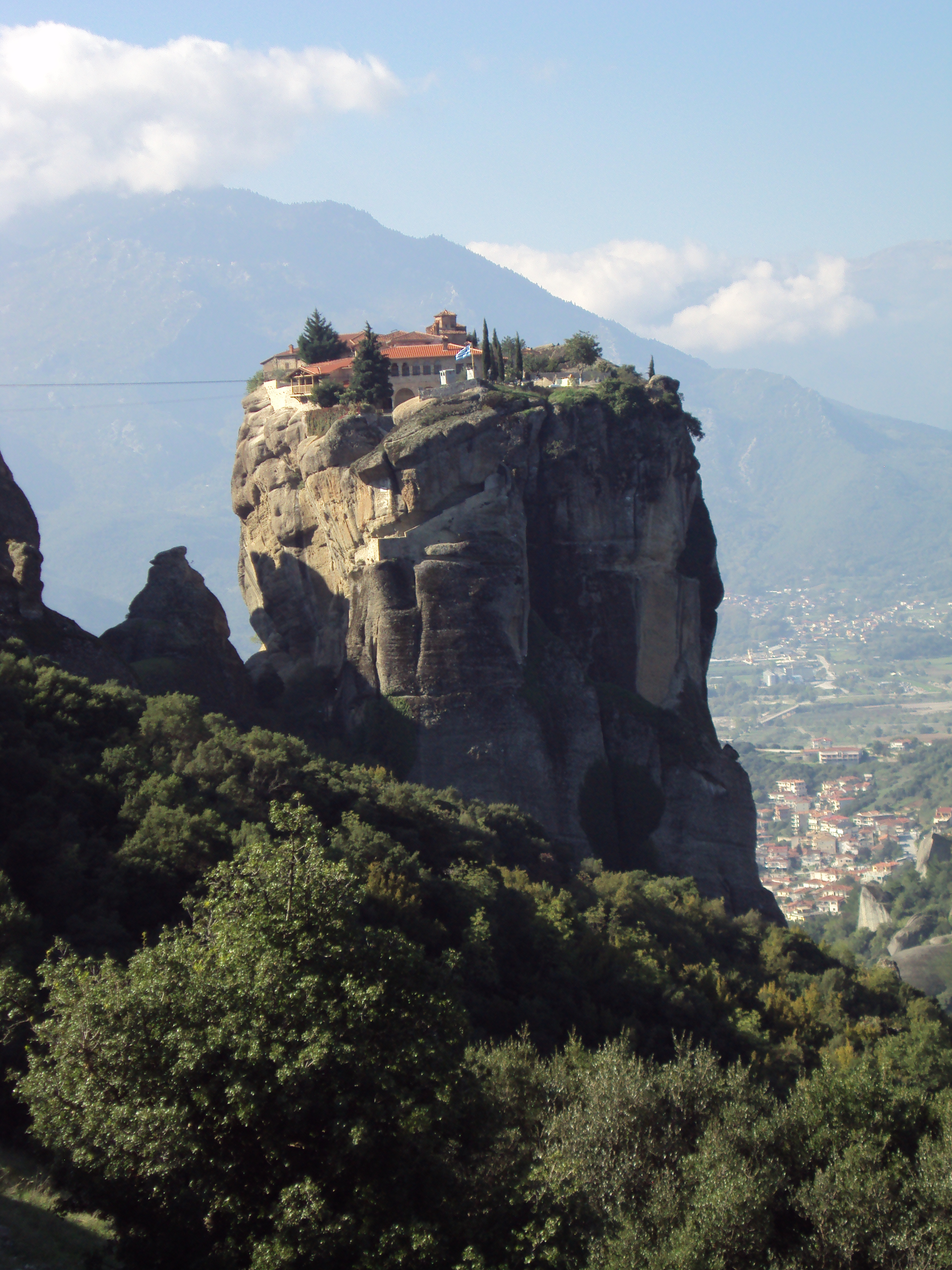 Meteora